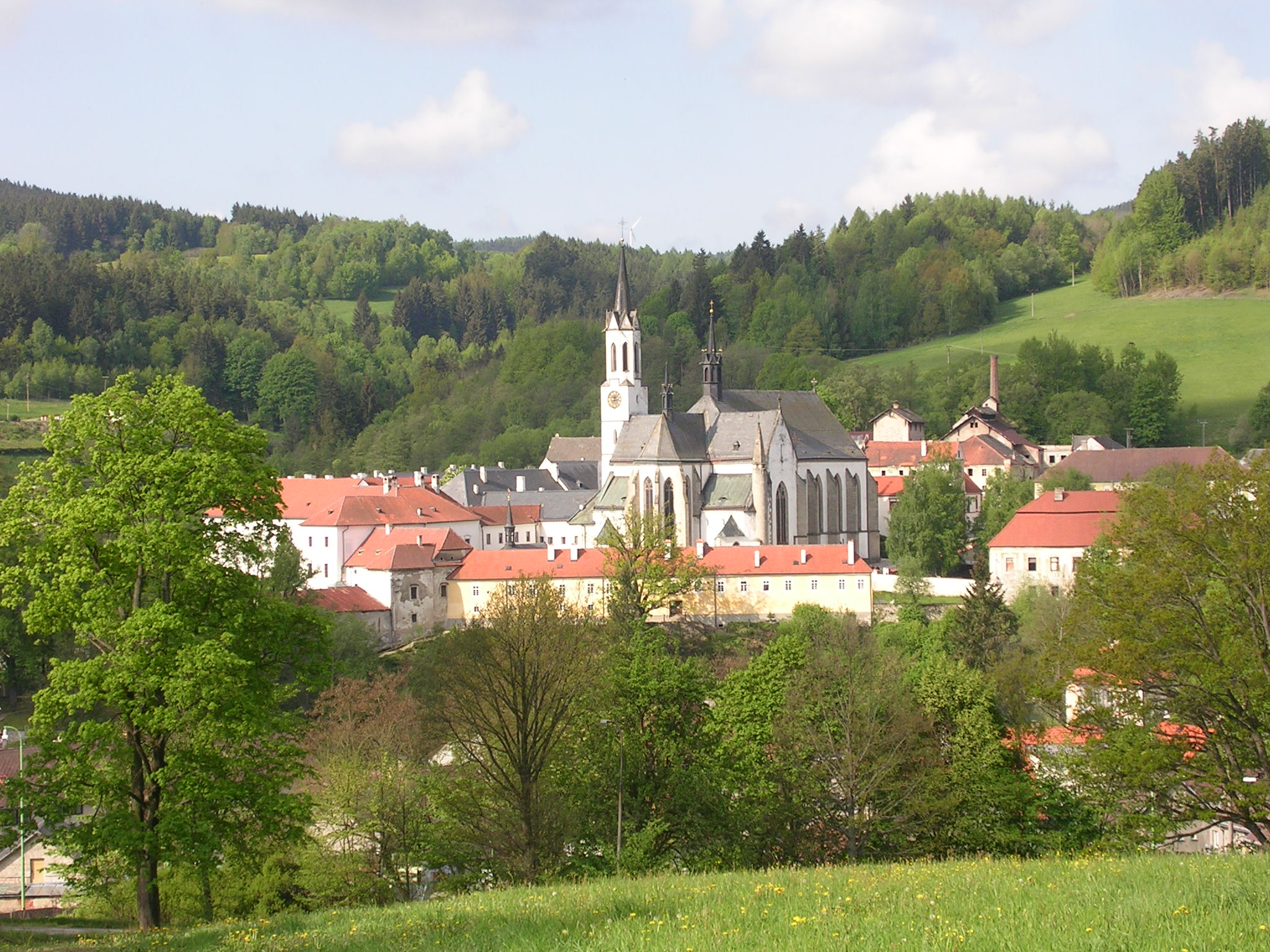 Vyšší Brod Monastery, Vyšší Brod, Český Krumlov District, South Bohemian Region, the Czech Republic.